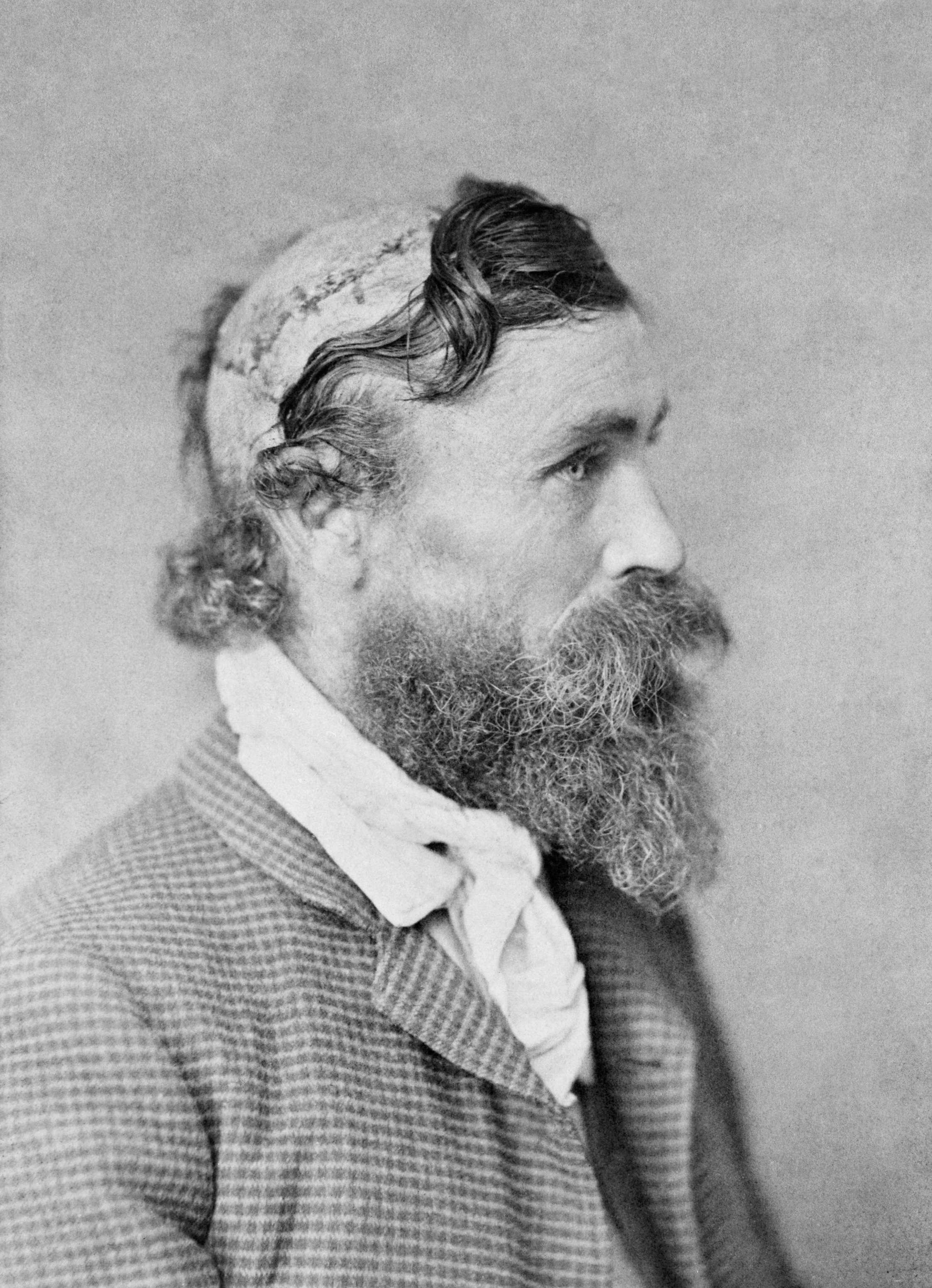 "Robert McGee, scalped by Sioux Chief Little Turtle in 1864." Robert McGee, head-and-shoulders portrait, facing right, showing effects of being scalped as a child. Photographic print on cabinet card.